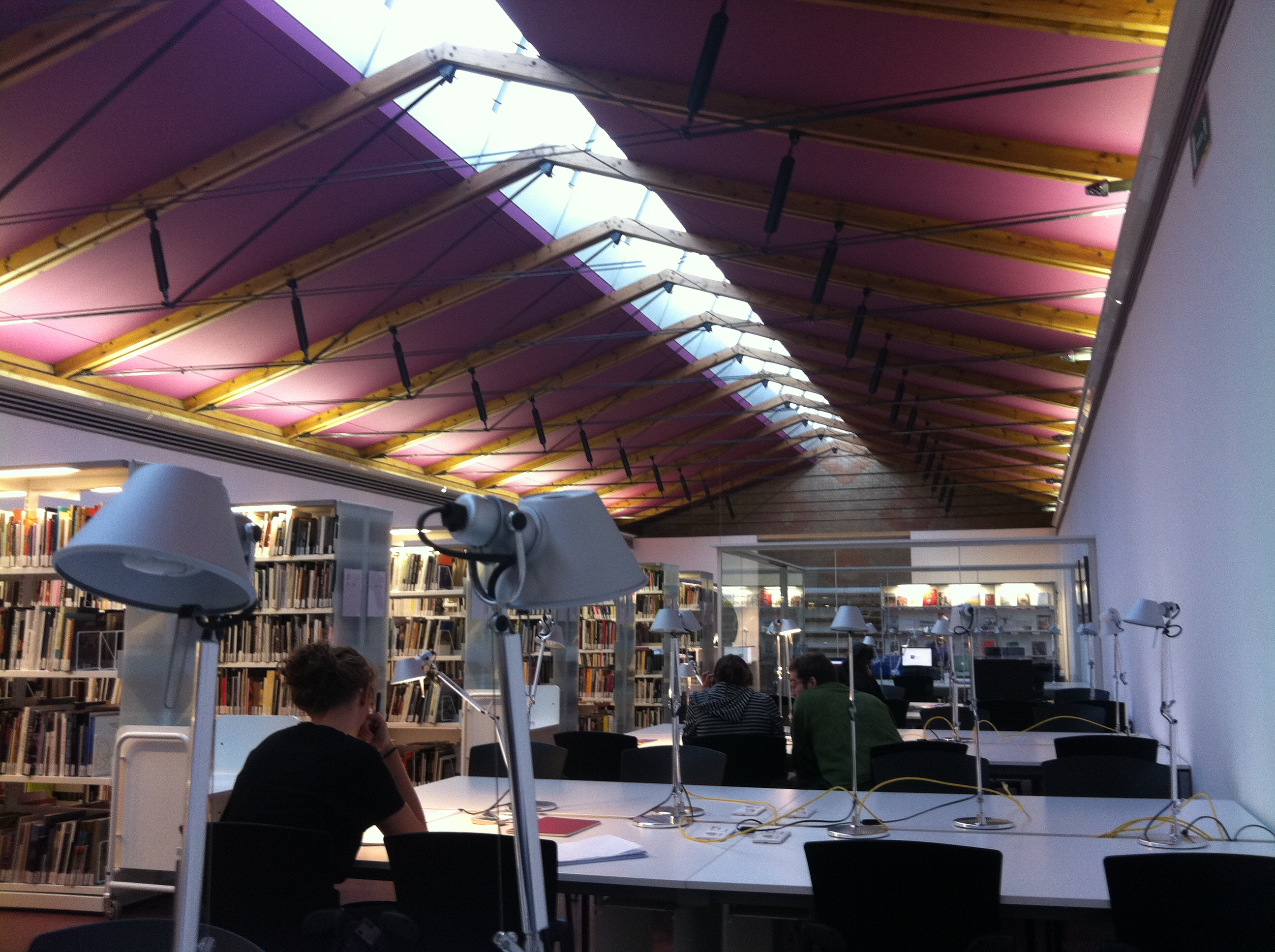 Centre d'Estudis i Documentació, library of MACBA, Barcelona.